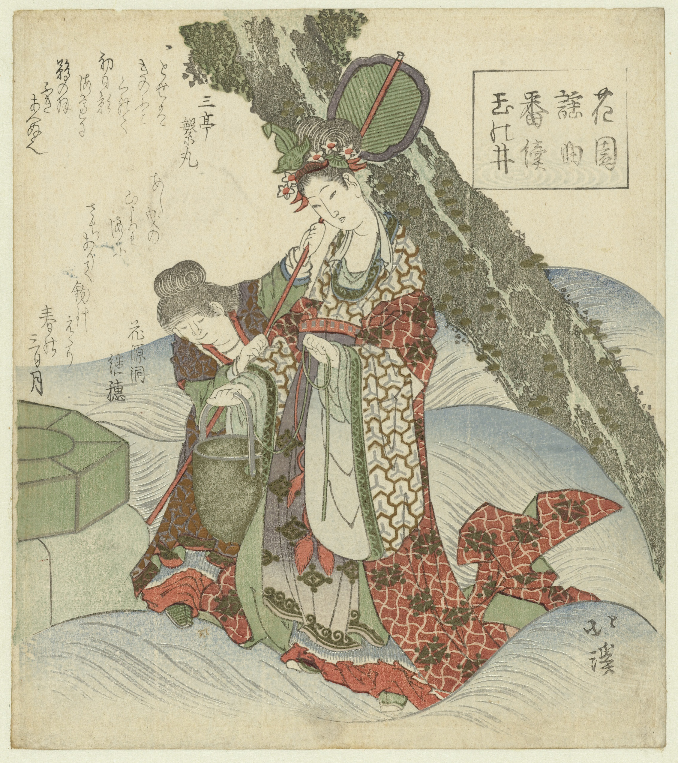 Toyotama-hime and her servant in front of the "Jewel Well" (Taman-no-i). Scene from the Noh play Tamanoi for the Hanazono Club (花園謡曲番続「玉乃井」), wood-block print by Totoya Hokkei (1790 - 1850), ca. 1826. The women are daughters of the dragon king (sea king); the god Hoori met them and received a magic jewel that controlled the tides.